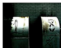 Taggings of M-18